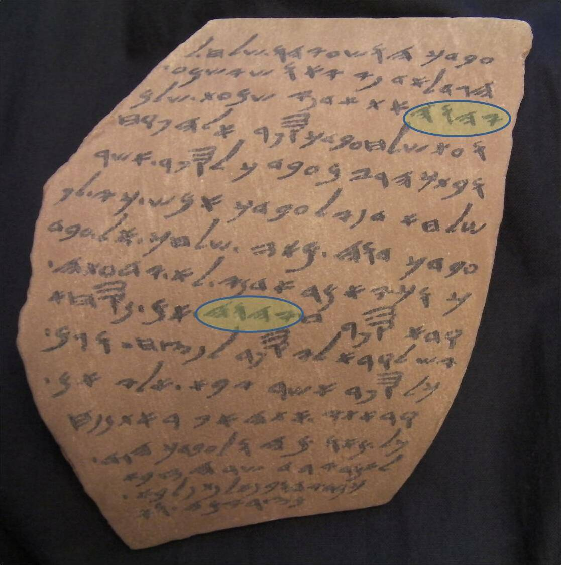 Front side of a replica of Lachish Letter III